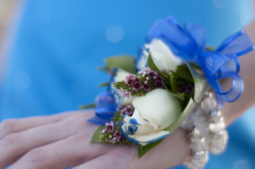 Just finished shooting a friend's prom group, and this is one of the last images from the shoot. Beautiful flowers